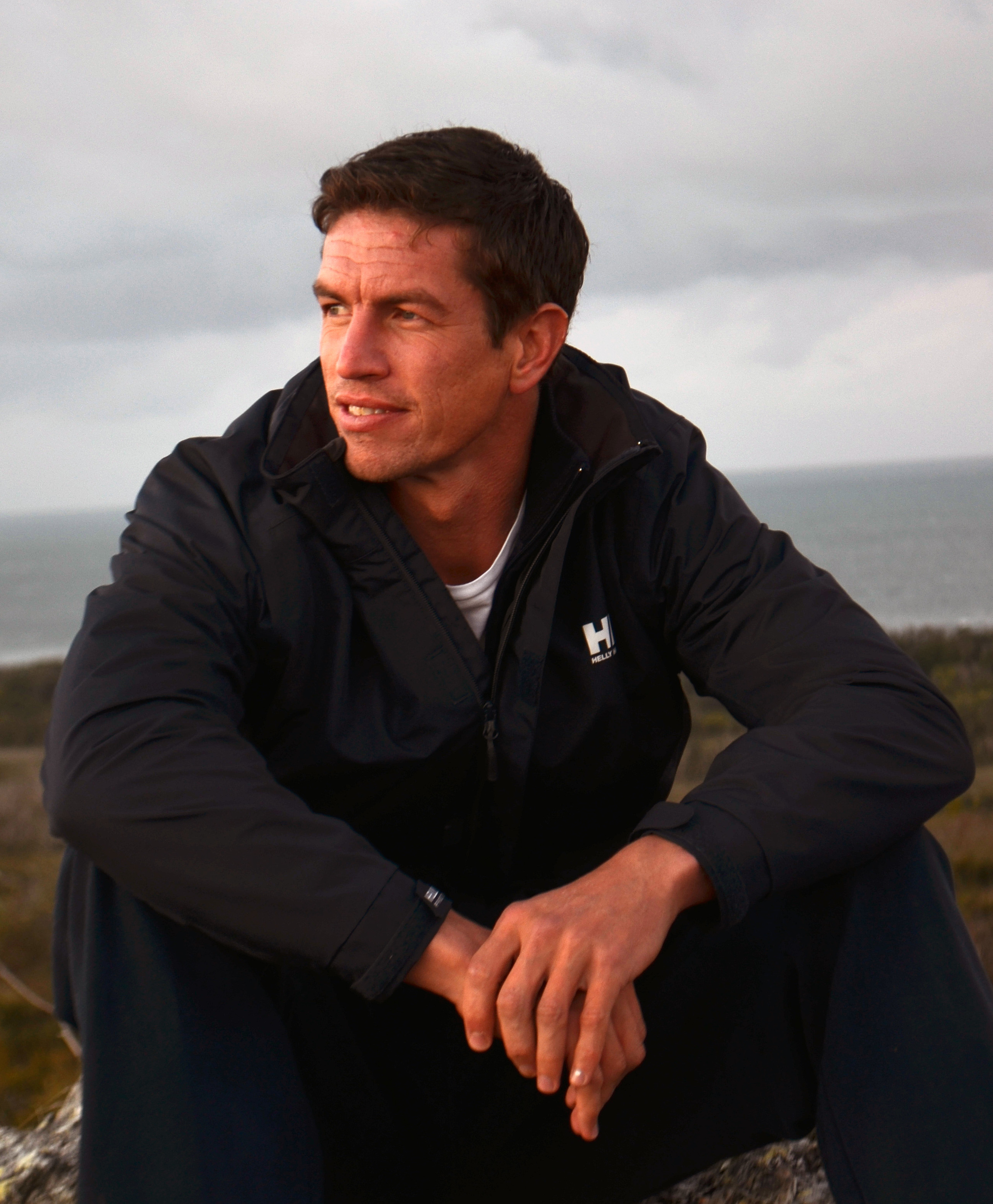 Troy Simmonds. Shot taken with Nikon 5100 in the Sunshine Coast